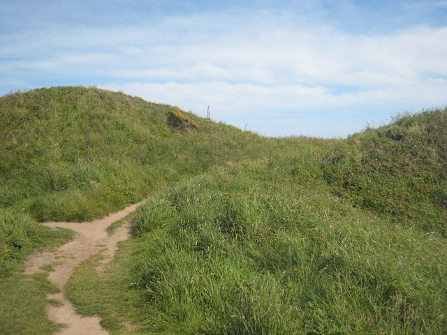 The entrance to Treryn Dinas cliff castle Treryn Dinas Iron Age promontory hill fort is protected by several ramparts of which this, the outer one, is the largest.